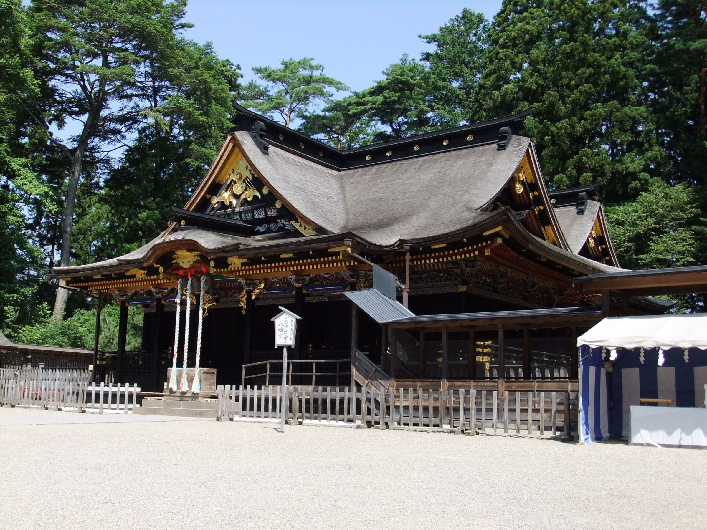 Ōsaki Hachiman shrine in Sendai-shi, Miyagi Prefecture.